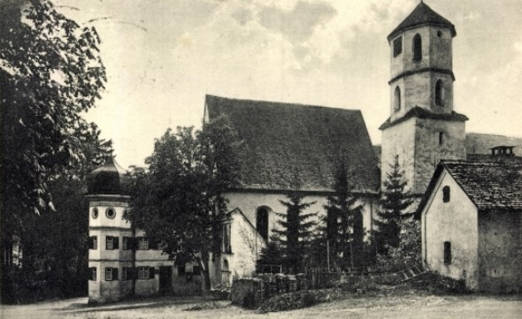 The former Benedictine convent of Urspring near Schelklingen. Cropped from a postcard issued in 1926